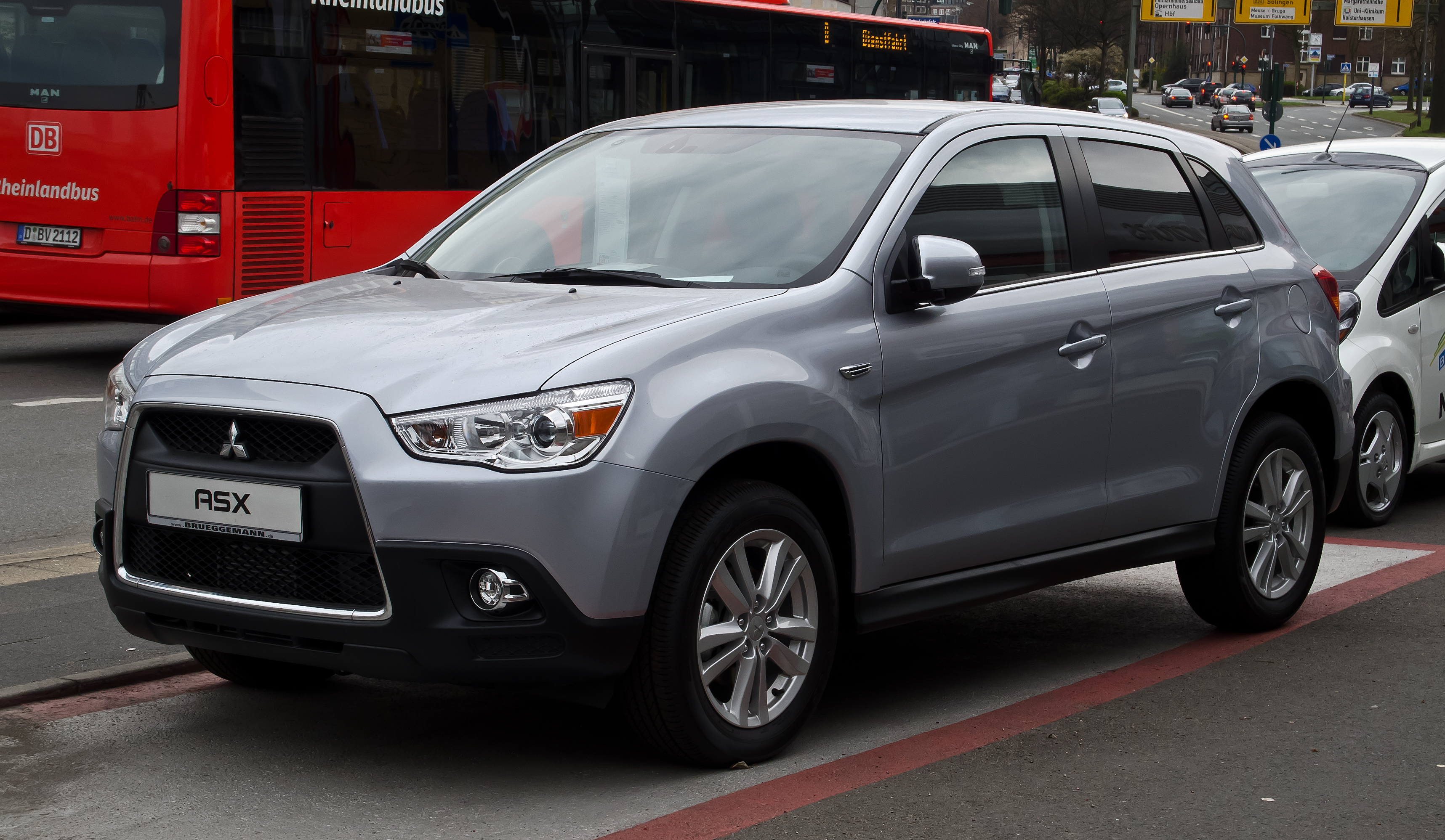 Mitsubishi ASX 1.8 DI-D+ ClearTec Edition